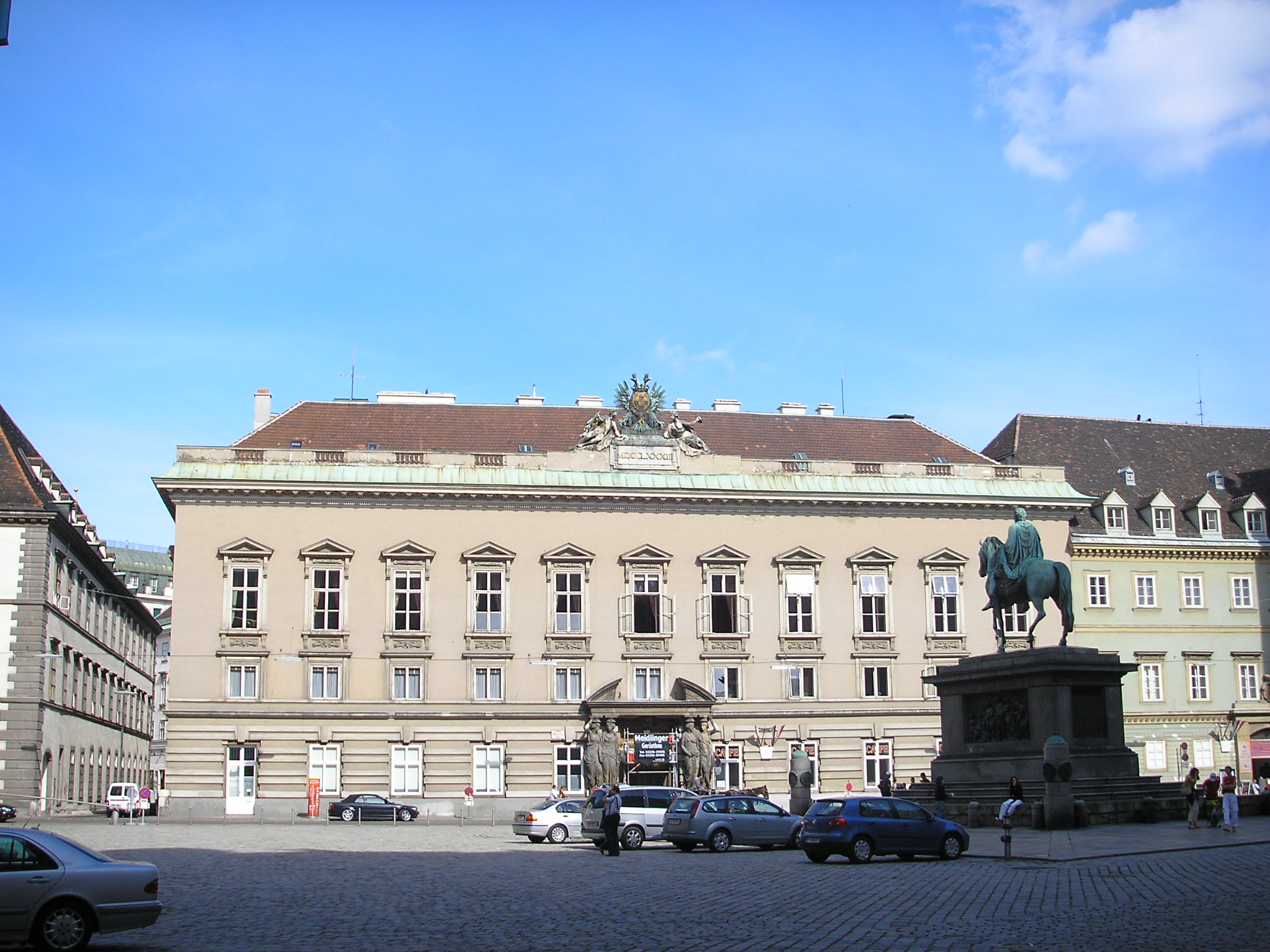 Detail of the Palais Pallavicini in Vienna, at Josefsplatz. Owned by the noble Pallavicini comital family.